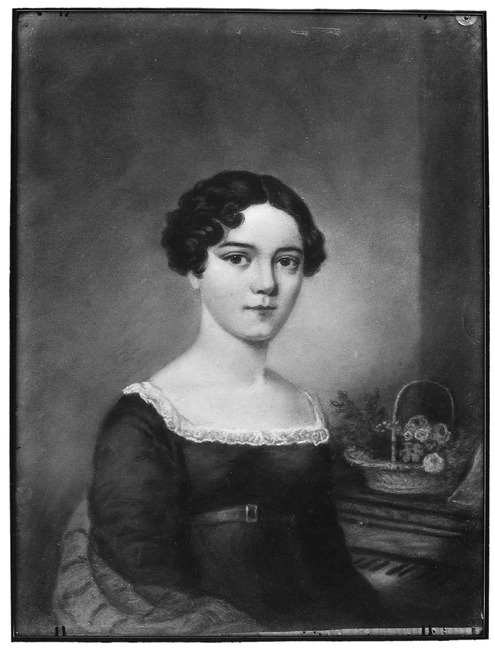 Portrait of Catharina Anna Maria Slengarde, born 15-07-1789 in Demerara (Guyana), died 17-01-1861 in De Meern (The Netherlands)